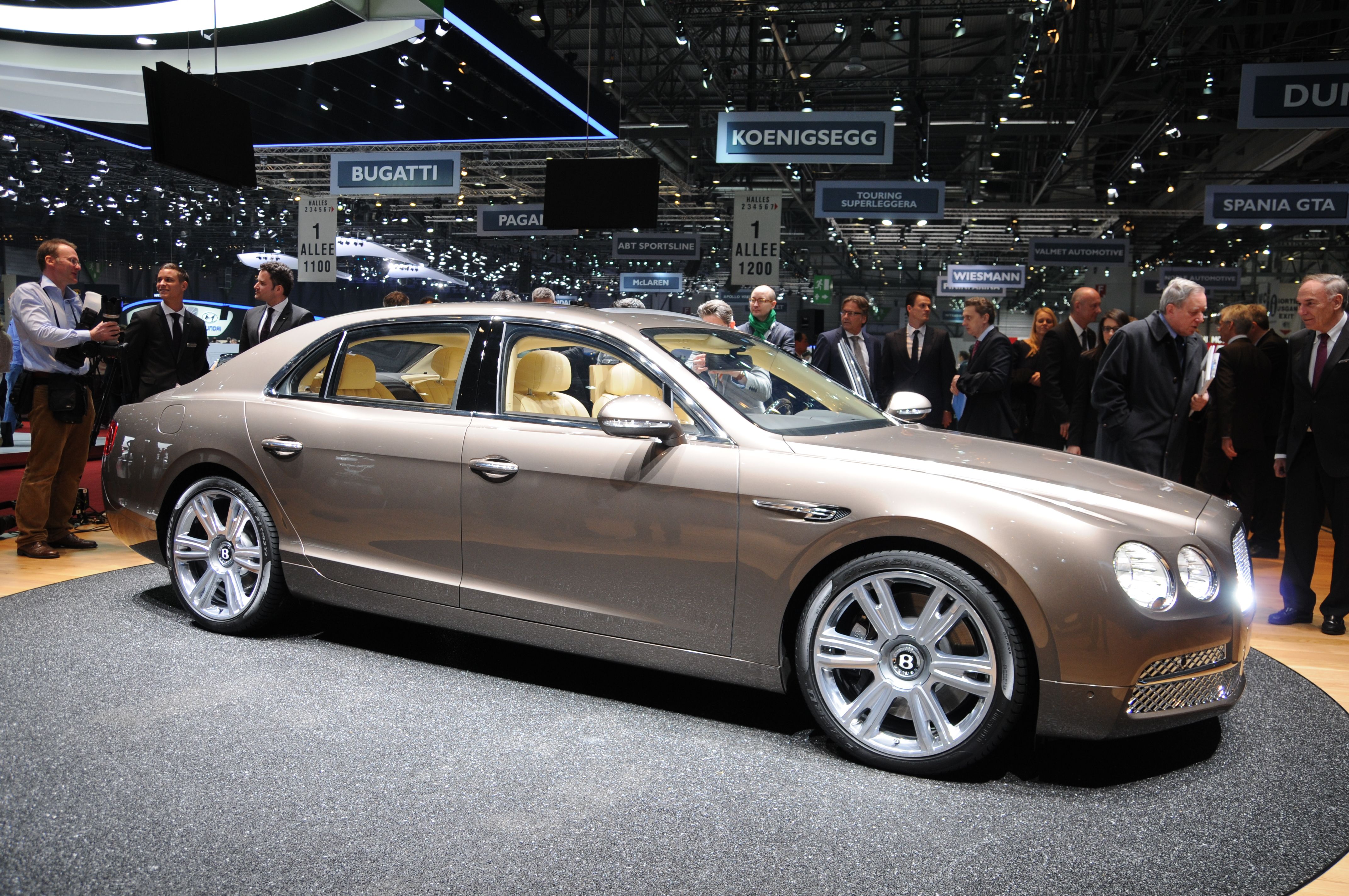 Geneva Motor Show 2013 (photos taken on the first press day)